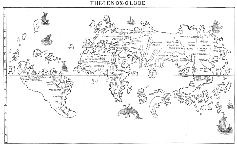 The Lenox Globe, by B.F. De Costa